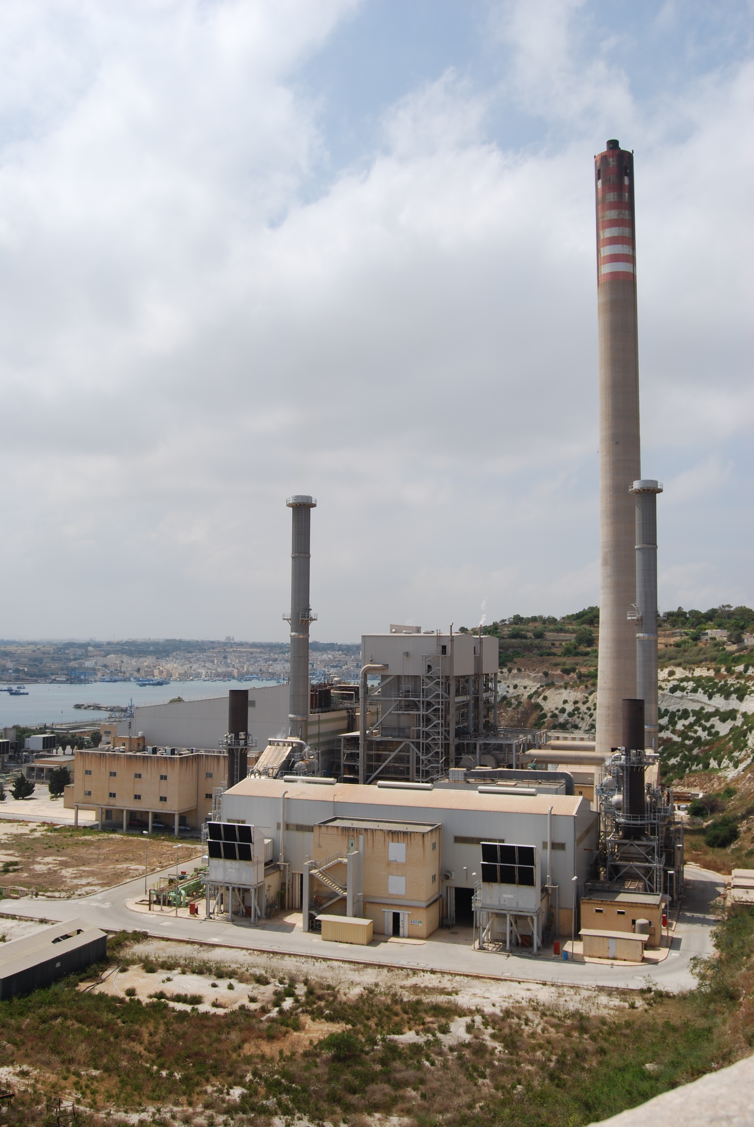 The oil-fired Delimara power station near Marsaxlokk, Malta with a maximal power of 304 MW. It was connected to electricity grid in 1992 and is operational since then.